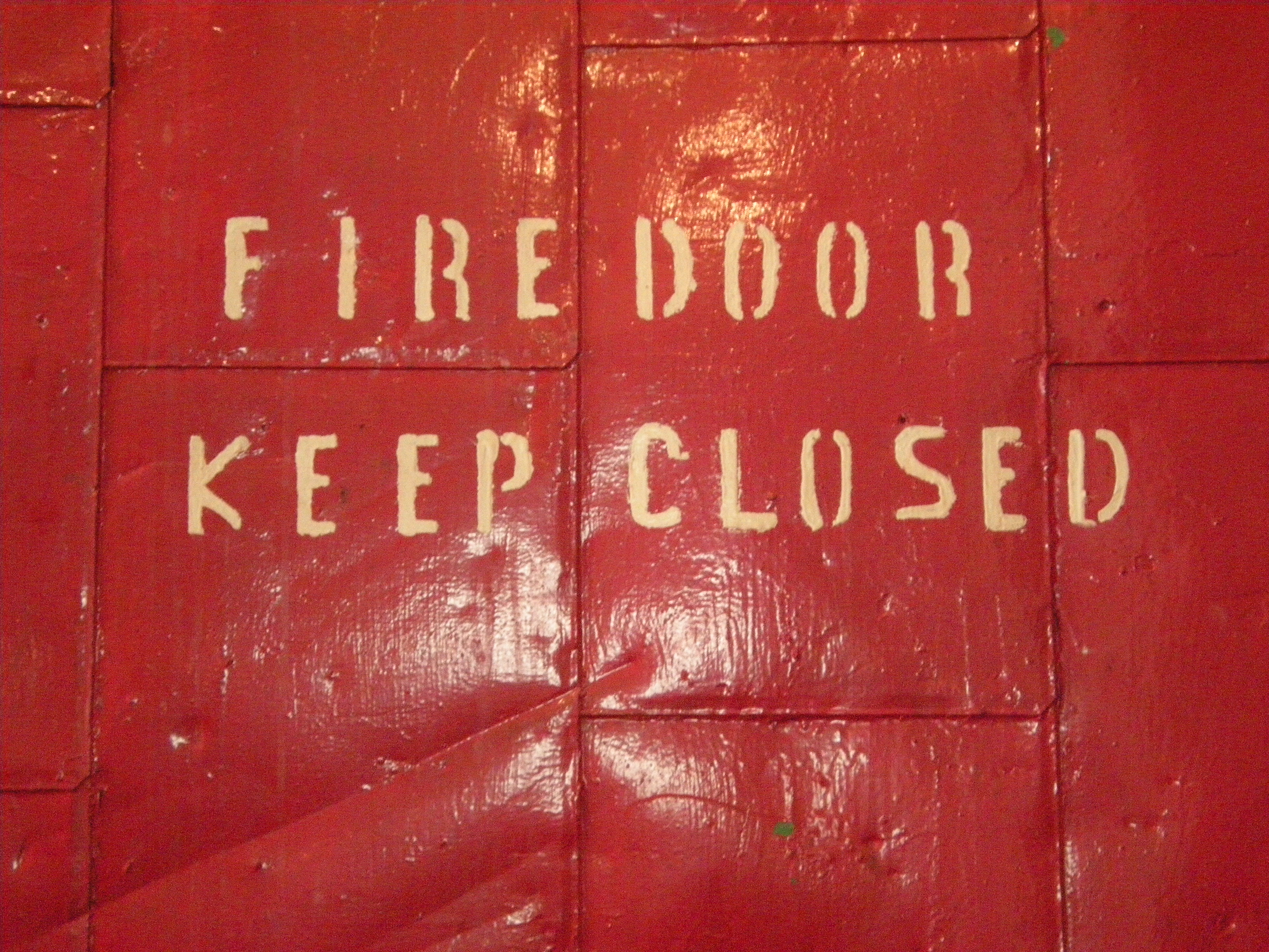 Sign on fire door, Georgetown PowerPlant Museum, Seattle, Washington, USA.